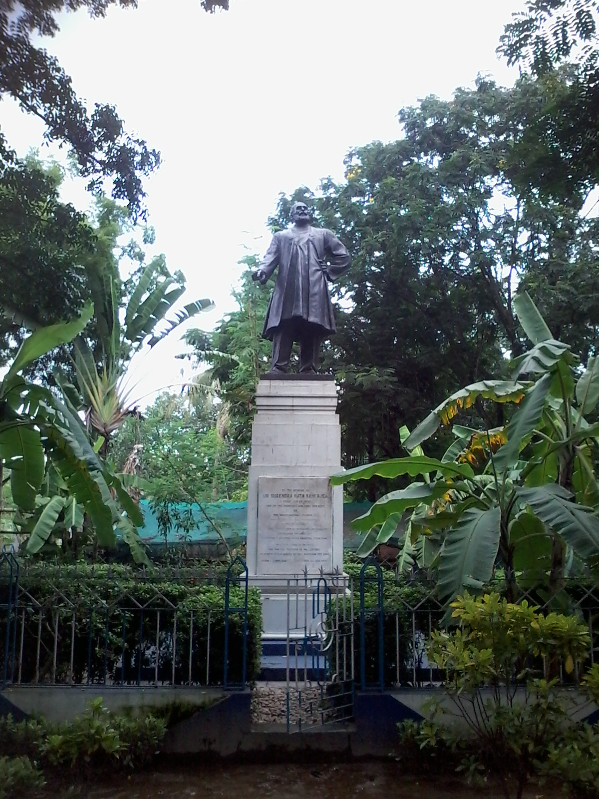 Monument of Rashtraguru Surendra Nath Banerjee at Surendra Nath Park, Kolkata